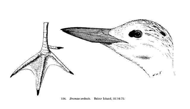 Dromas ardeola